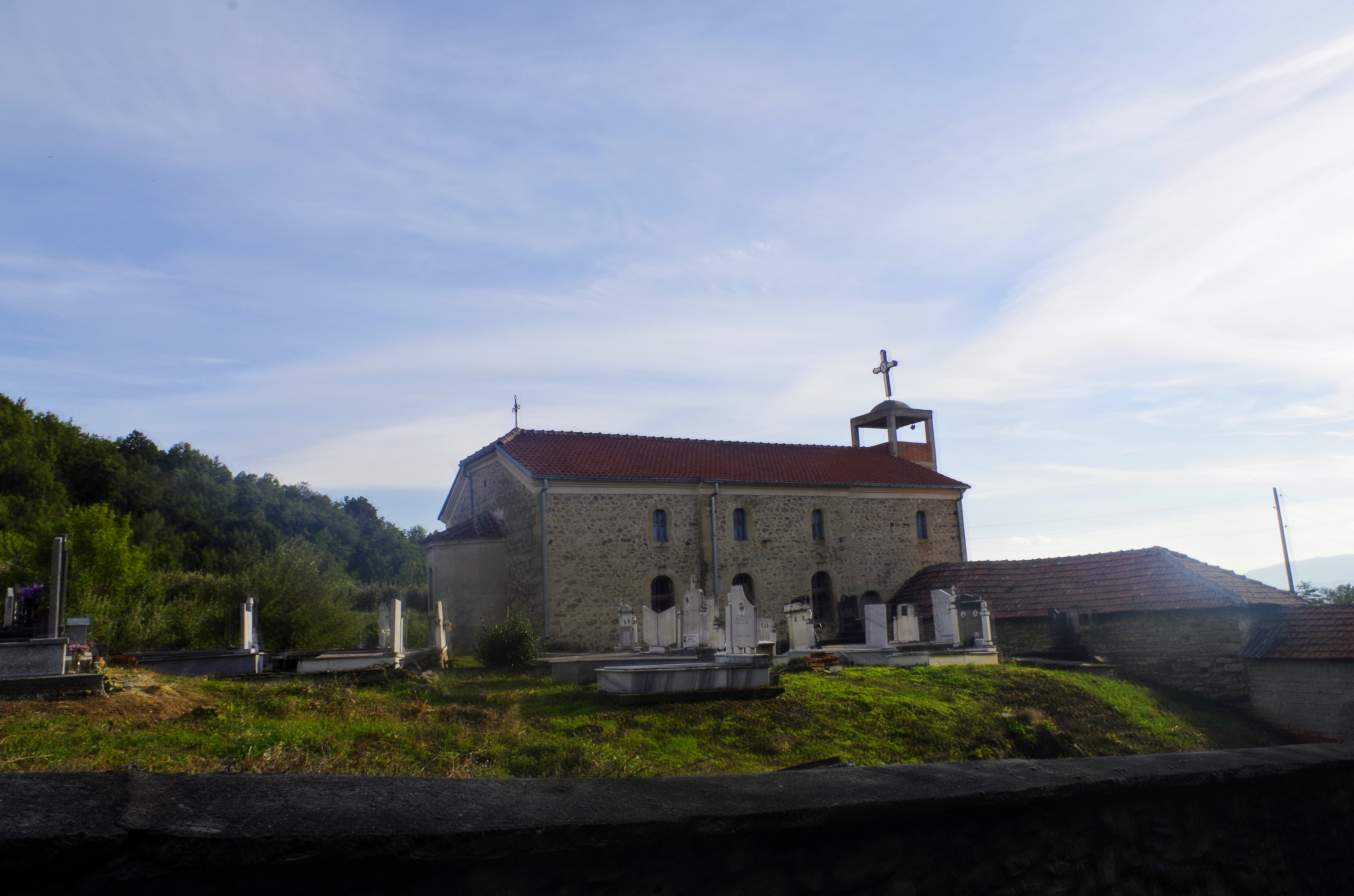 View of the St. Michael the Archangel Church in the village Arvati